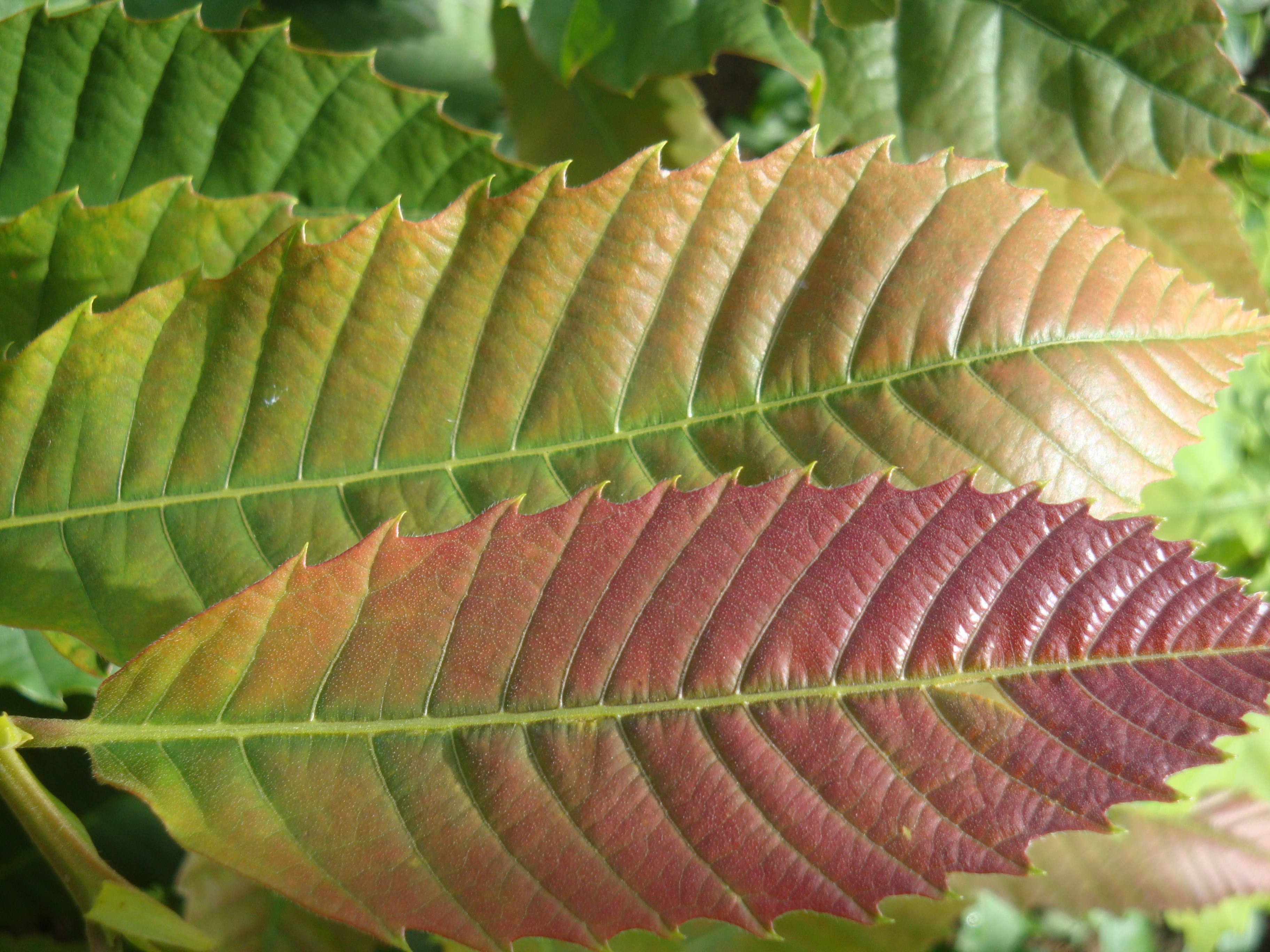 Chestnut leafs